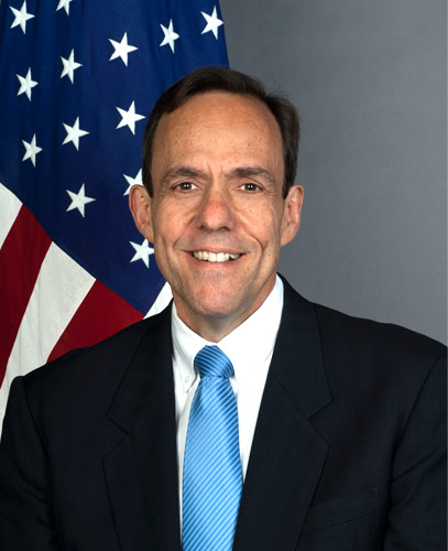 State Department portrait of William E. Todd